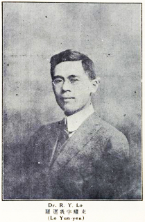 Luo Yunyan (1890-?)